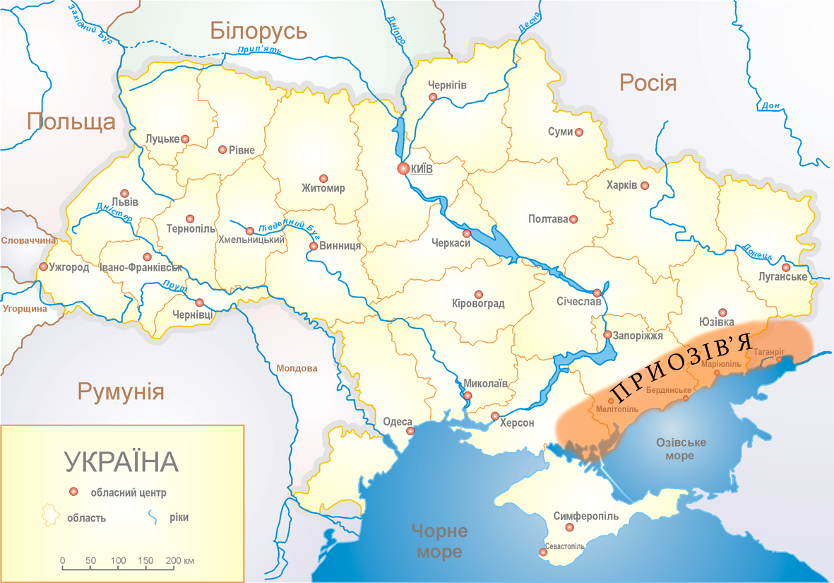 Map of Pryozivya and present-day Ukraine.